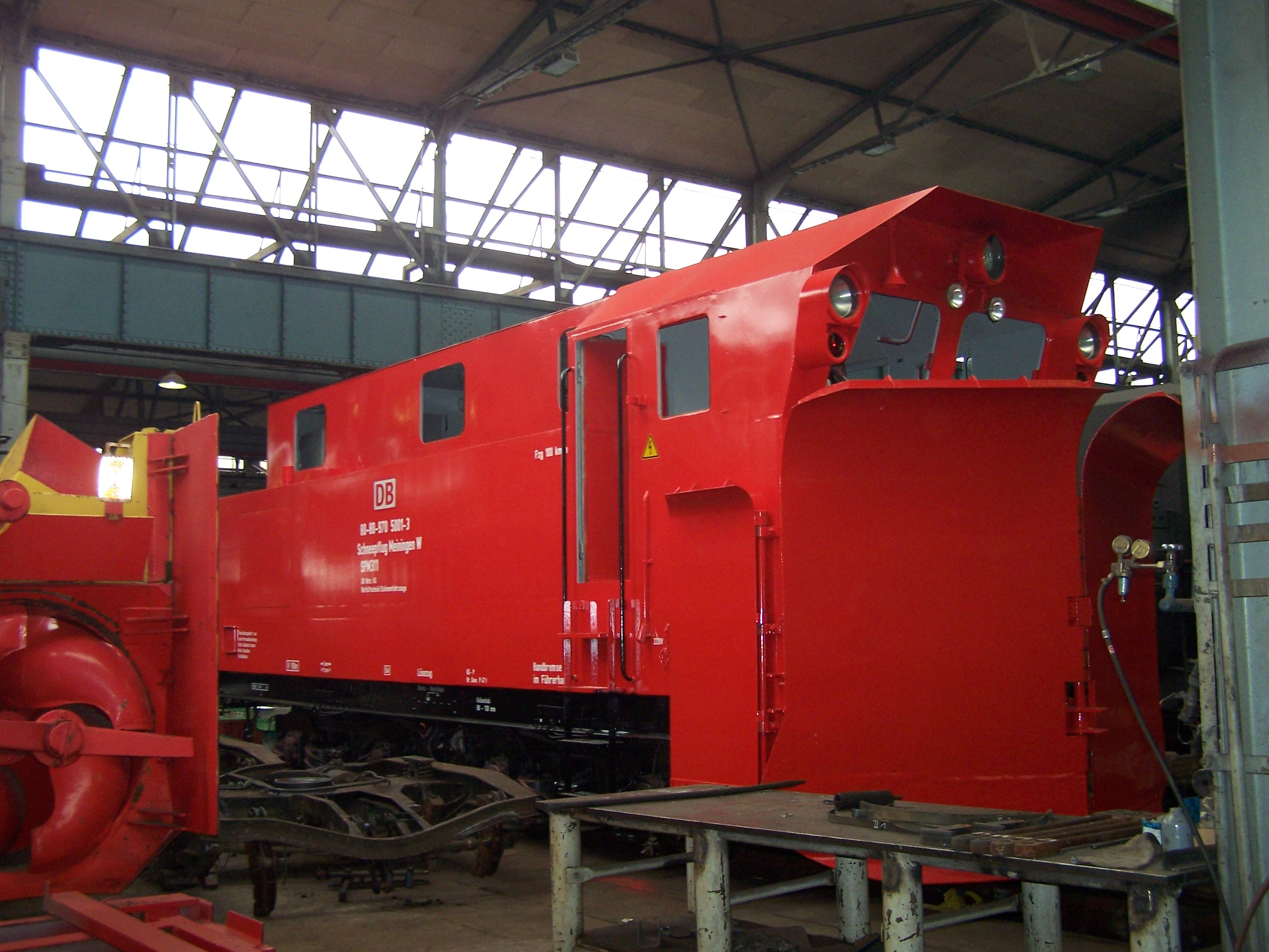 Railway snowplough in the Meiningen Steam Locomotive Works, Germany, September 1st, 2007